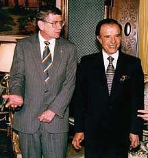 EL PRESIDENTE CARLOS MENEM JUNTO AL PRESIDENTE DEL GRUPO DRI, THOMAS E. CAPPS Y AL EMBAJADOR JAMES CHEEK